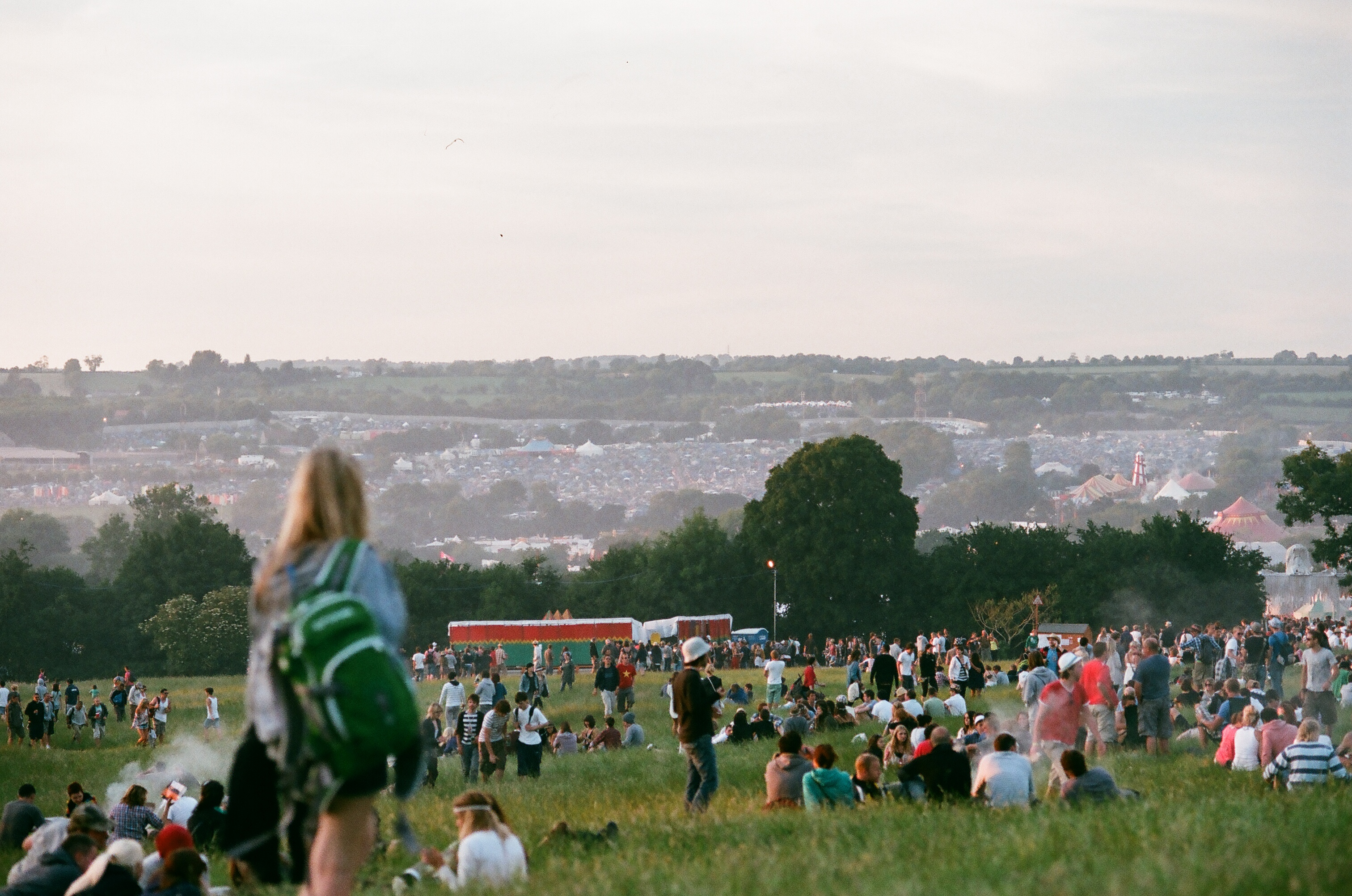 Glastonbury festival, Somerset